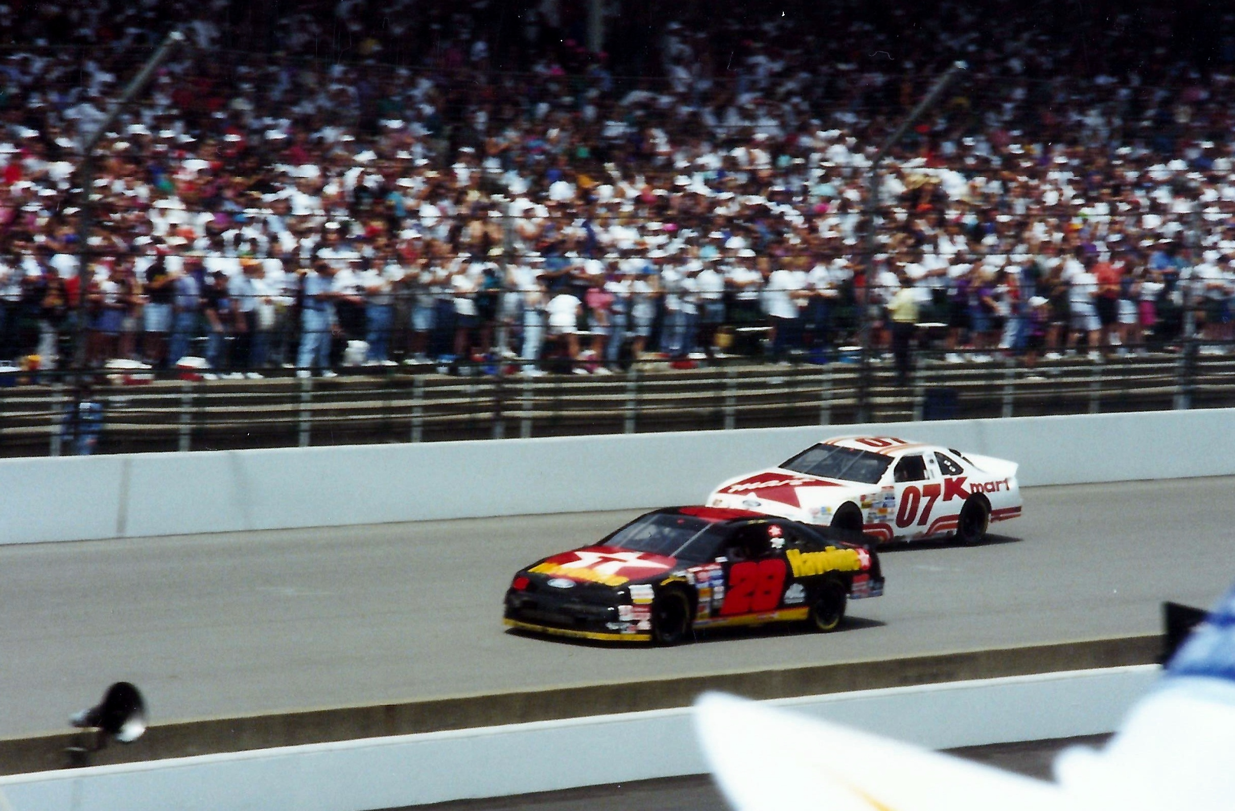 1994 NASCAR Brickyard 400 at the Indianapolis Motor Speedway. Ernie Irvan (#28) leading Geoff Brabham (#07).